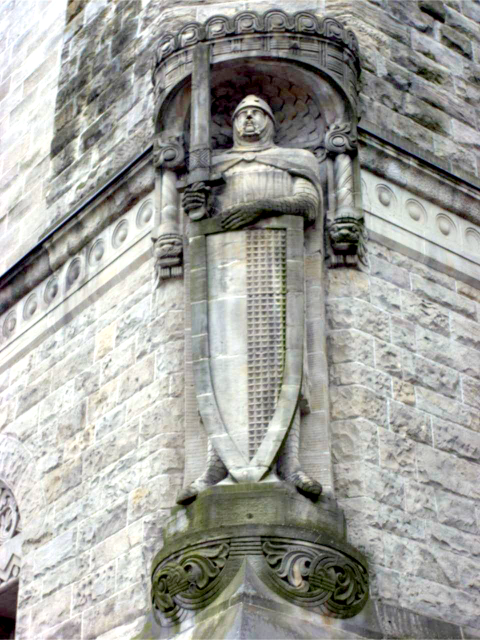 Rule of Roland leaned with the side of the tower of the clock.